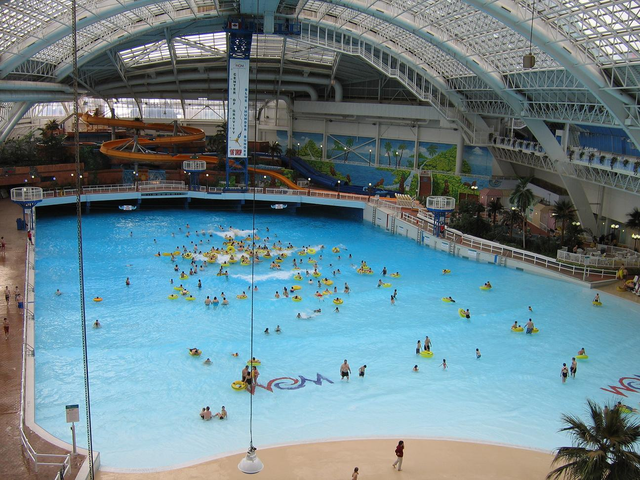 Uploaded to the English Wikipedia page: [1] by User:Lake Nipissing Original information from the English Wikipedia